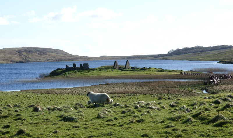 Finlaggan, Islay, Argyll and Bute, Scotland. Eilean Mór as seen from the north.